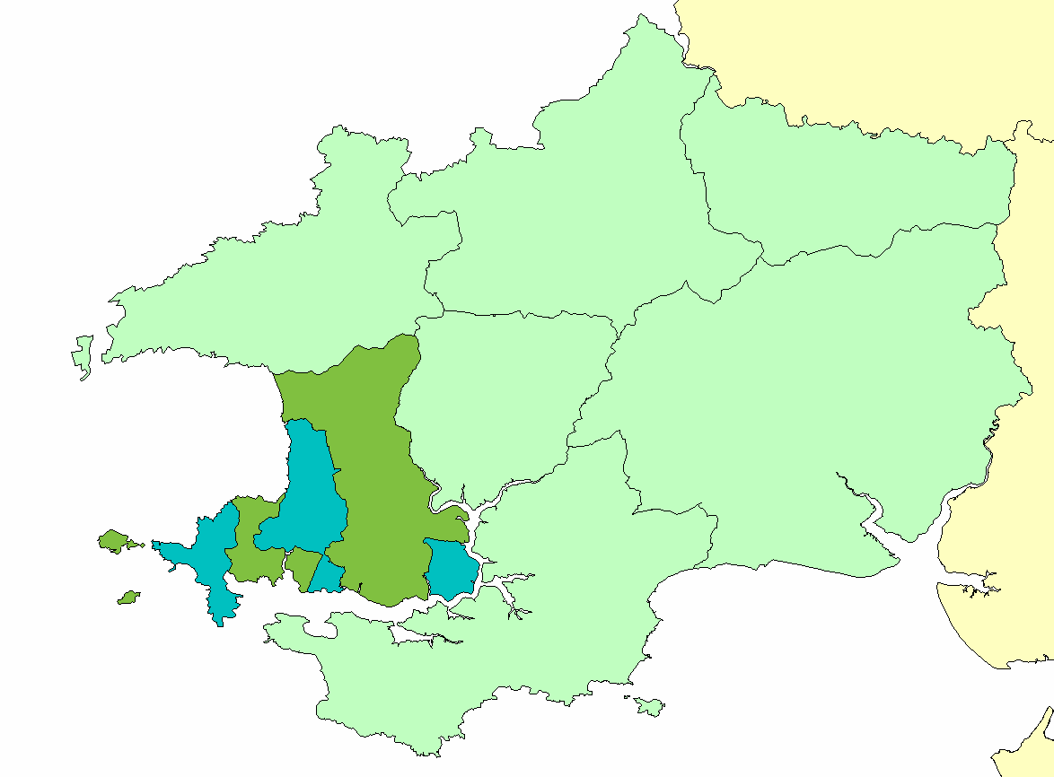 A map of the cantref of Rhos (identical to the later hundred of Roose) shown in relation to ancient Dyfed, and showing the Norman Lordships into which it was divided: Haverfordwest (Hwlffordd) in green and Walwyn's Castle (Castell Gwalchmei) in blue.